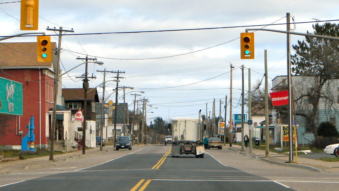 Massey, part of Sables-Spanish Rivers township, Ontario, Canada.